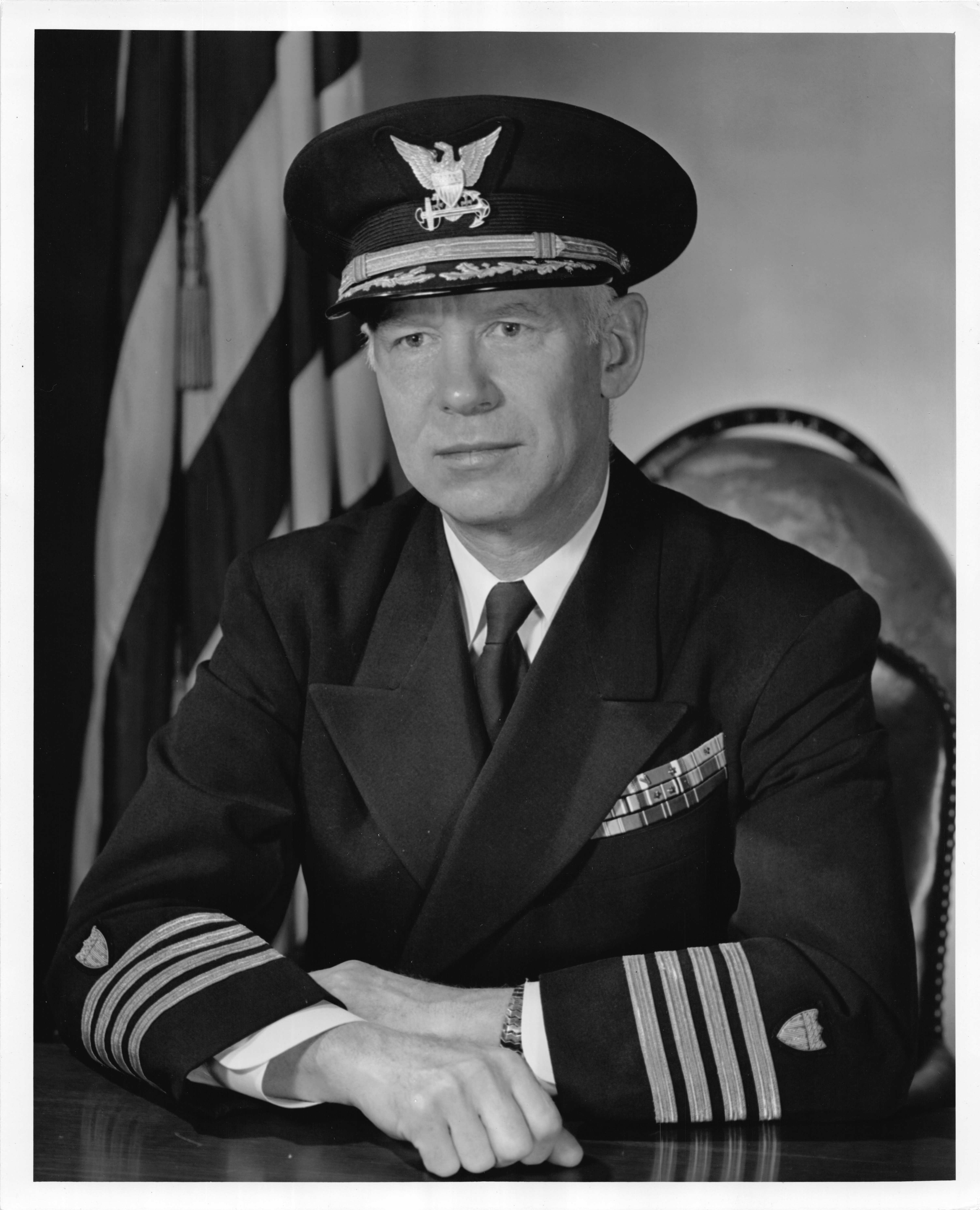 Rear Admiral Charle W. "Tommy" Thomas, USCG (RET) Official portrait with rank of Captain.